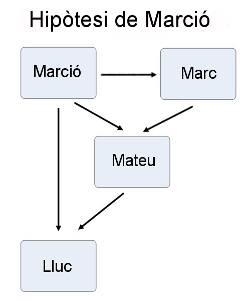 The solution to the Synoptic problem which proposes the Gospel of Marcion as the source for all three Synoptic Gospels